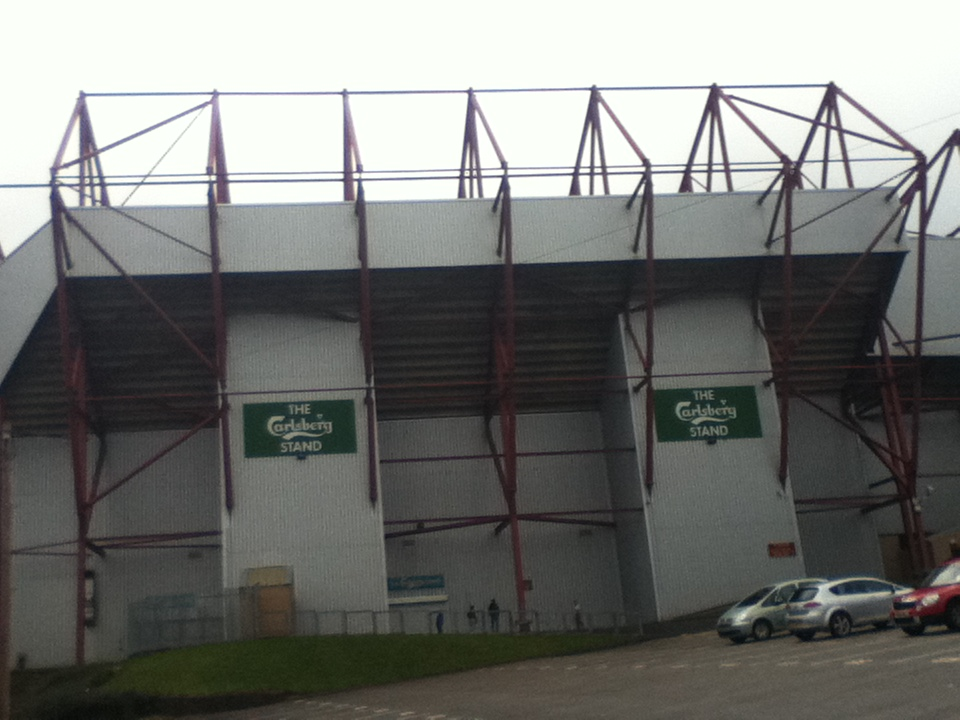 The Carlsberg Stand at Valley Parade, home to Bradford City AFC.